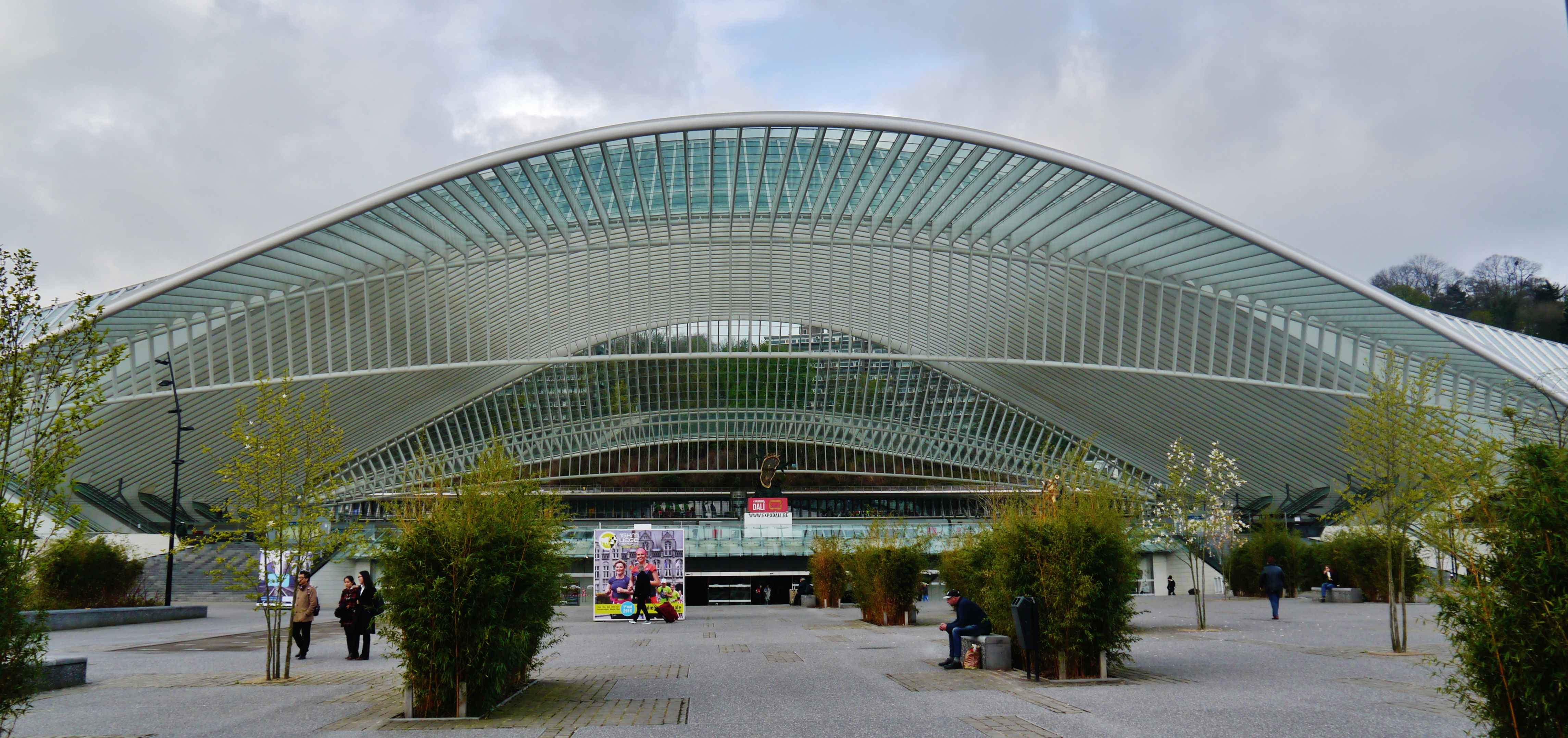 Liège-Guillemins Station, Liège, Province of Liège, Wallonia, Belgium